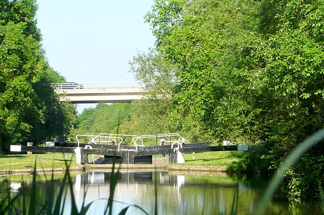 Approaching Higg's Lock A much more wooded scene these days hides the Newbury bypass to some extent.